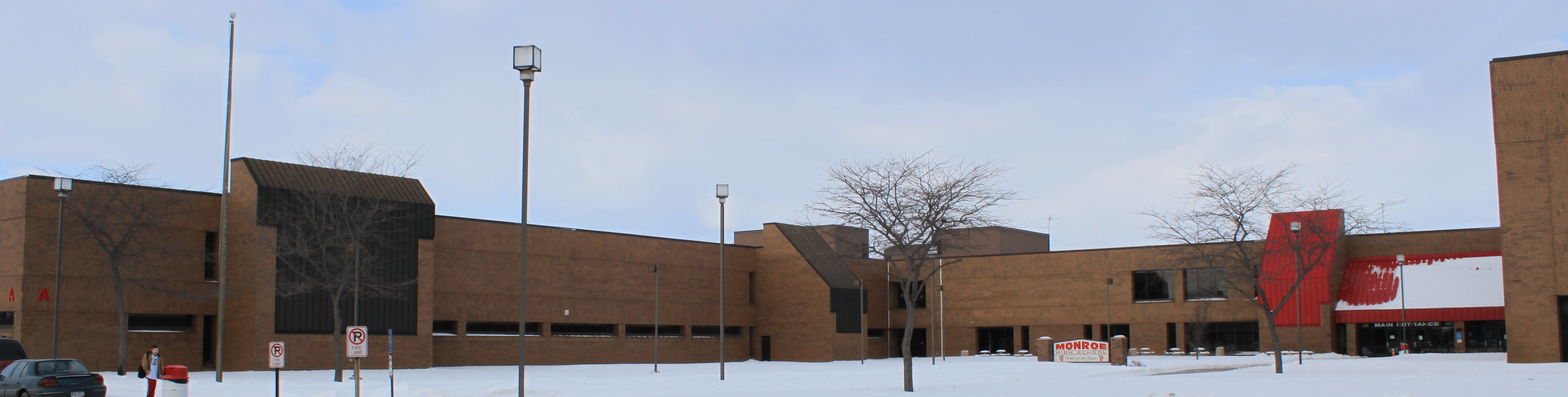 Monroe High School, 901 Herr Road, Monroe, Michigan